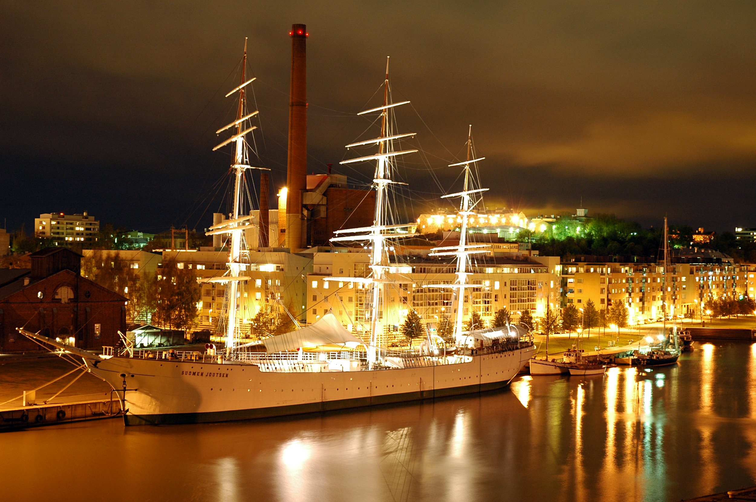 Finnish full rigged ship Suomen Joutsen moored at her current location.